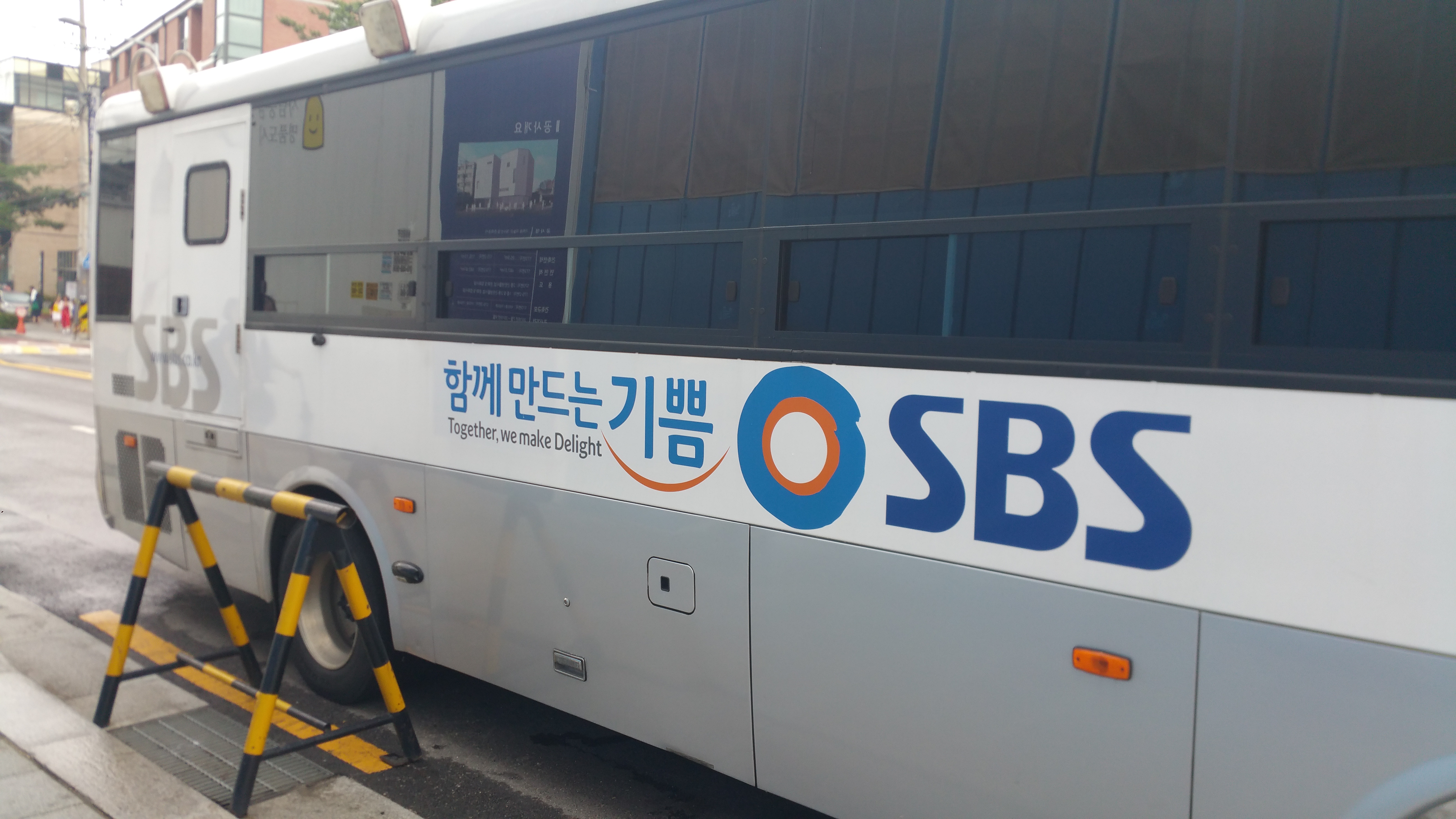 SBS VIP bus parked on Bukchon Hanok Village street.